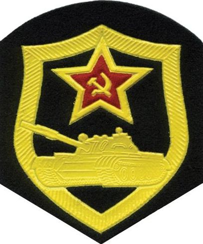 Emblem of the soviet armed forces 1960 to 1991, Soviet Army (military branches, service branches or armed services), sleeve badge (appliquéd) right hand upper arm (dress uniform/ parade uniform) to be used for the ranks OR1 to 8, and WO1 to 2, here: – “Armored corps”, design 1985.